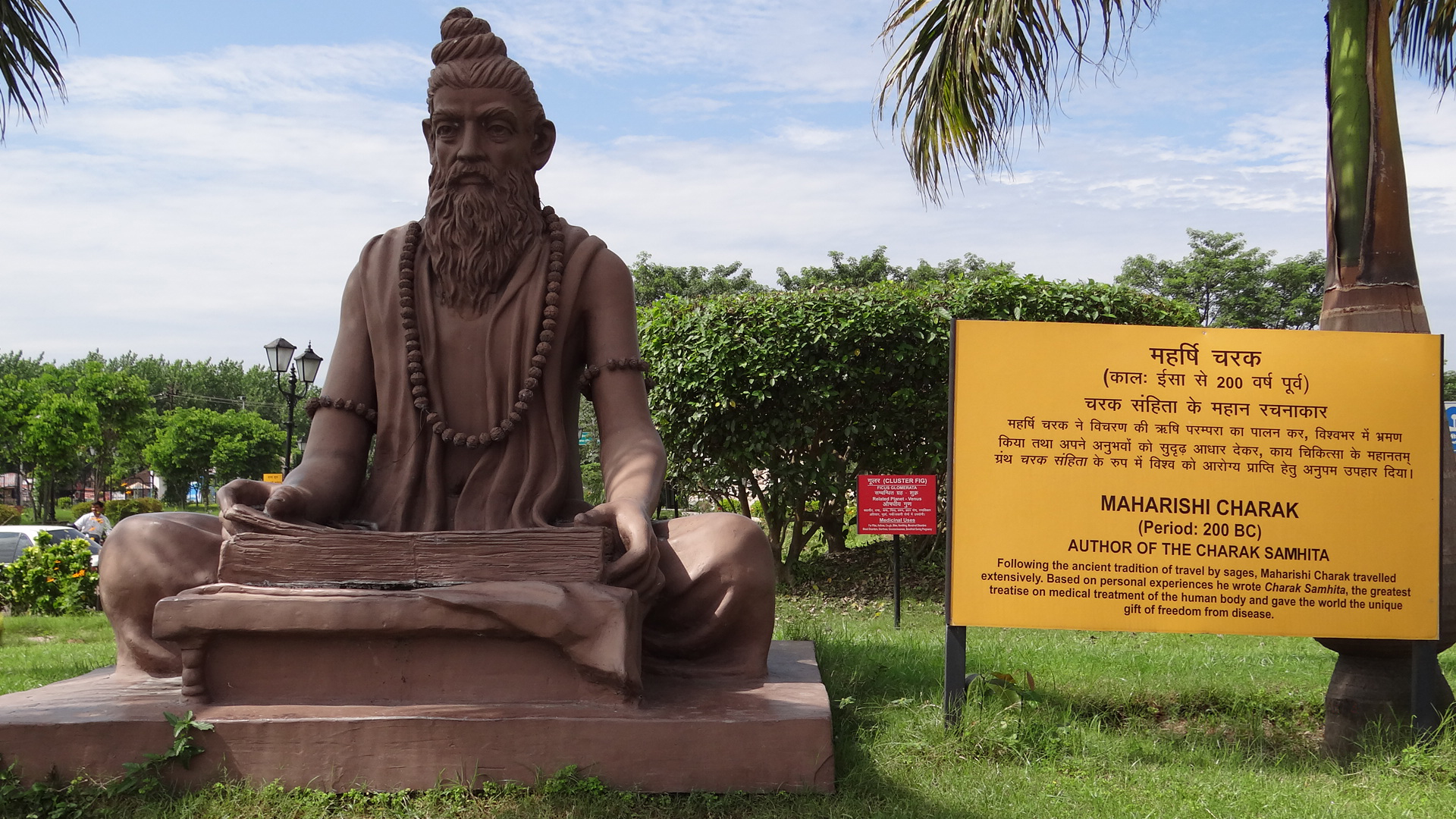 Charak Monument in Yog Peeth Campus,Father of Medicine & Surgery